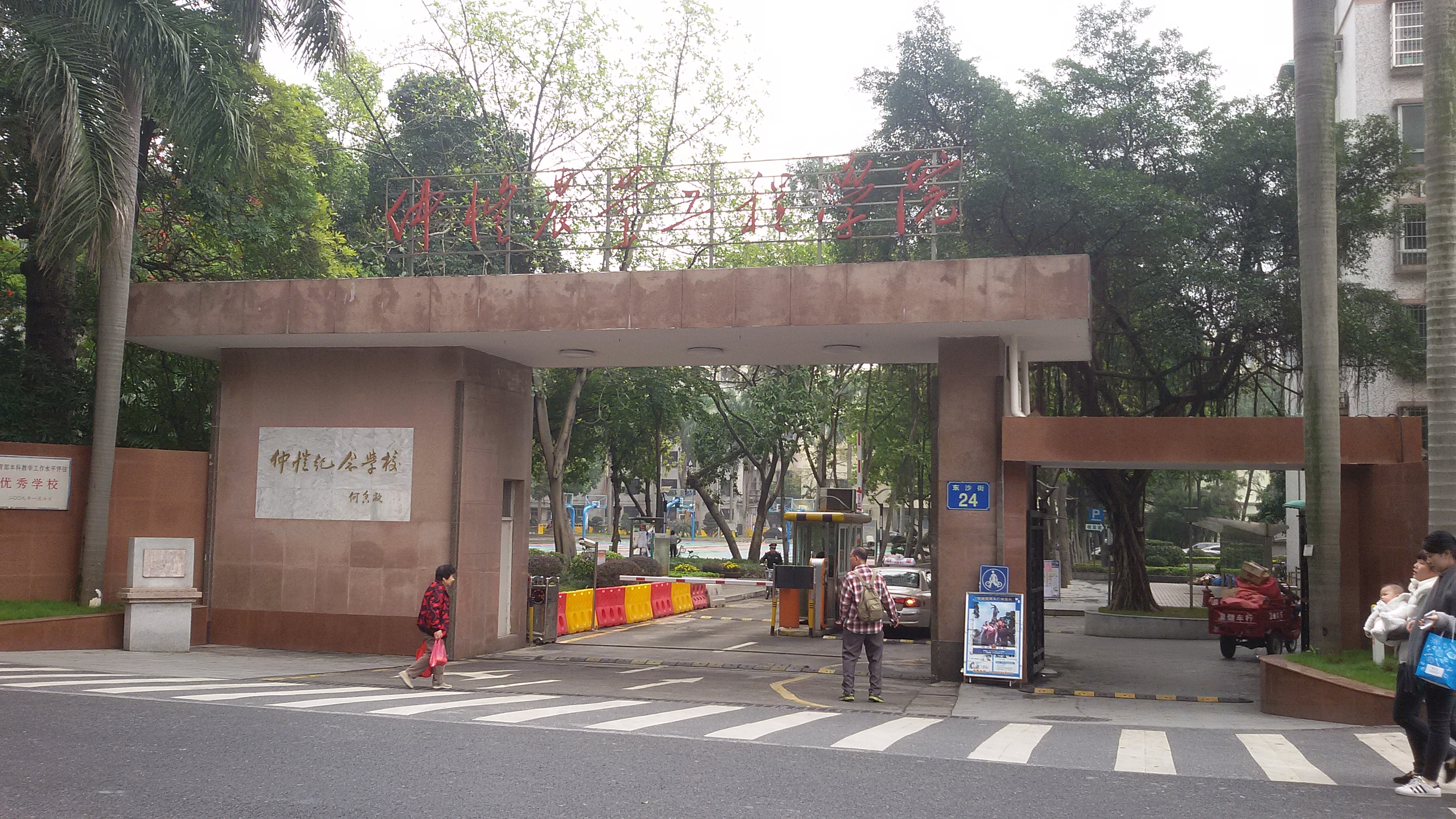 Zhongkai University of Agriculture and Engineering